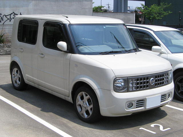 Nissan "Cube" (Z11 / 2nd generation) 2002/10-2005/9